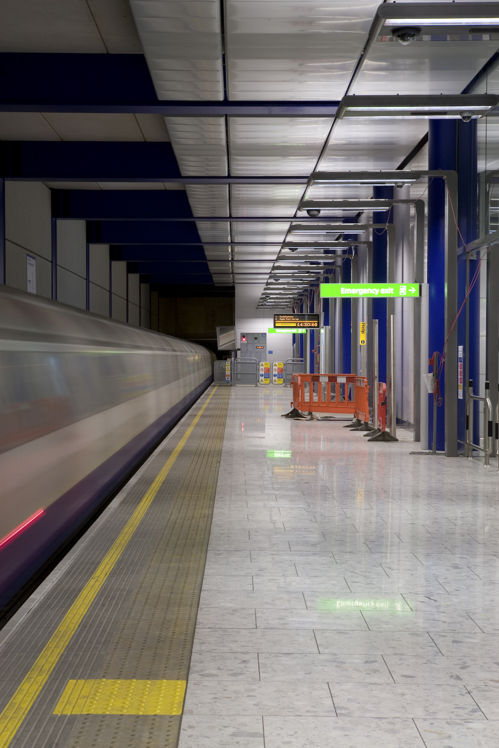 Heathrow Terminal 5 - Piccadilly Line